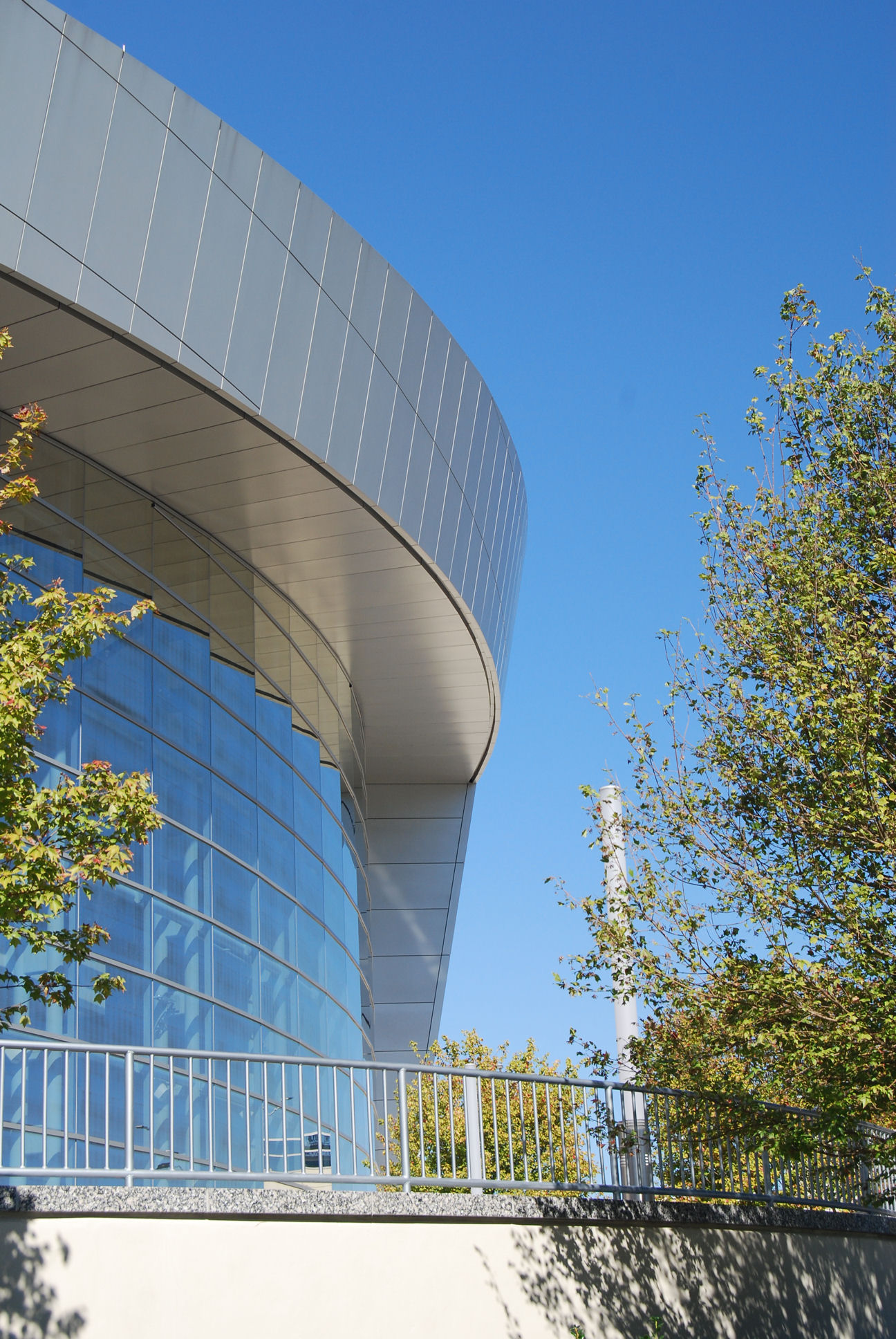 Facade detail of the Cobb Energy Performing Arts Centre, located at Cumberland in Cobb County in metropolitan Atlanta, Georgia.